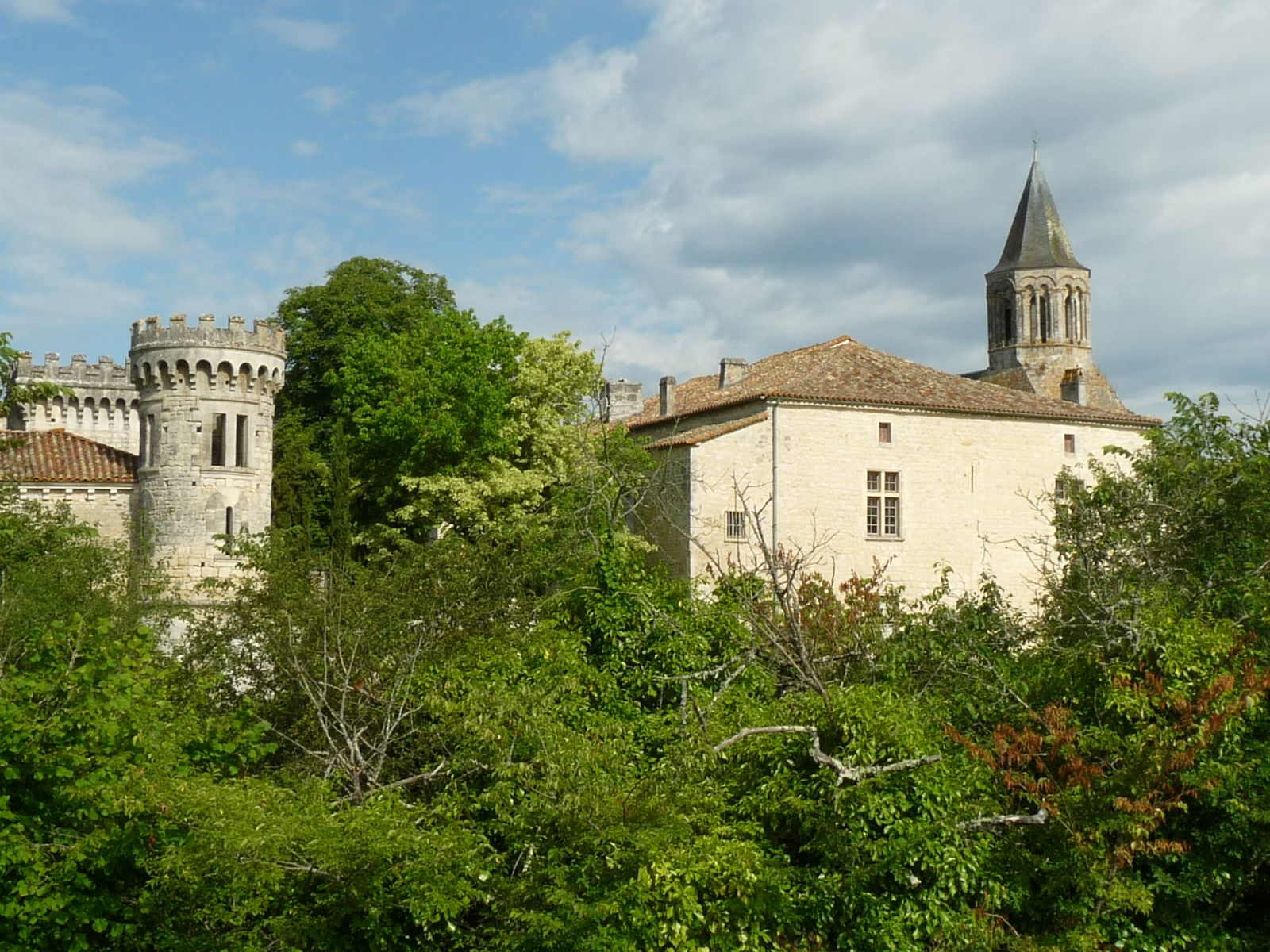 castle and church of Torsac, Charente, SW France